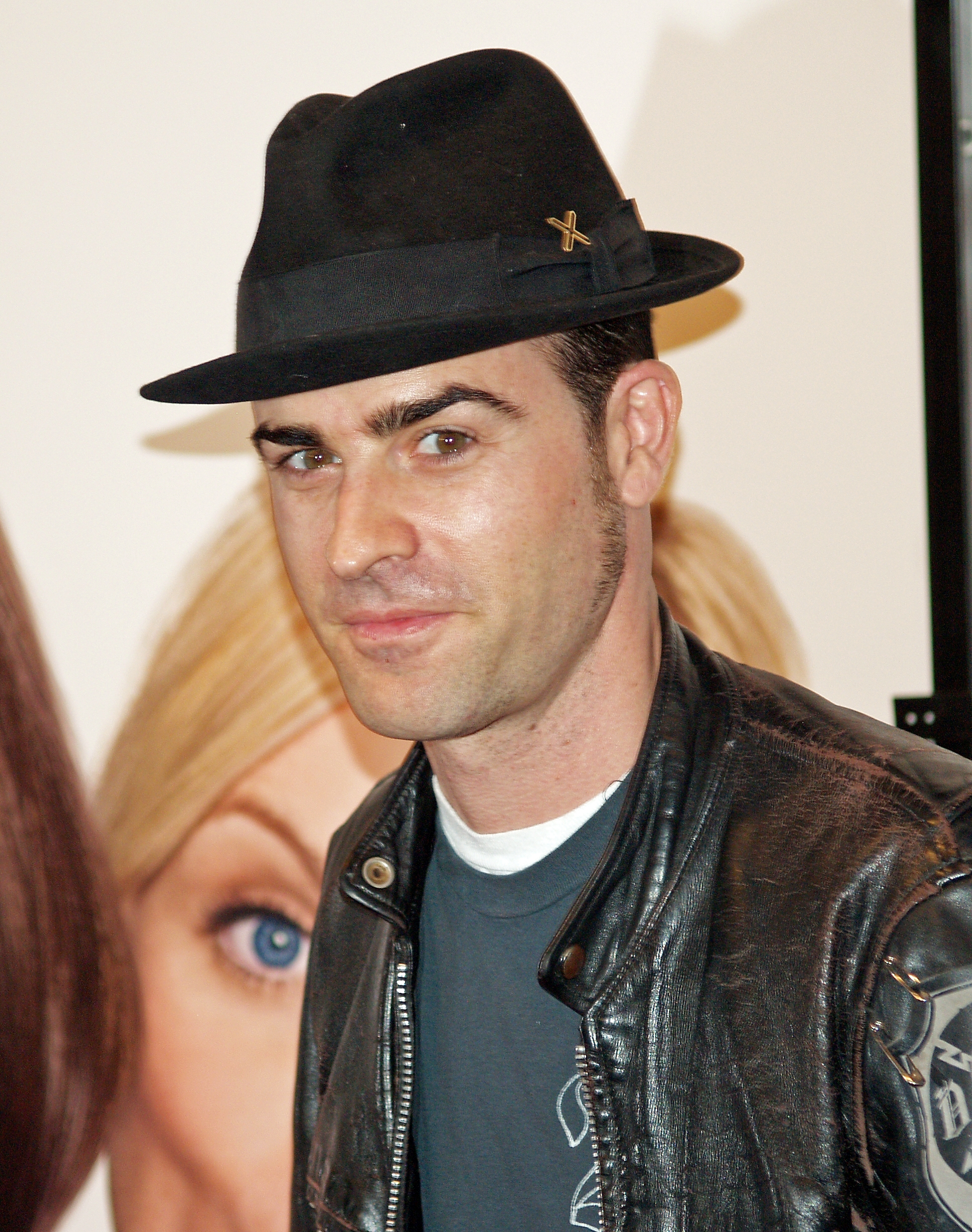 Justin Theroux at the premiere of Baby Mama in New York City at the 2008 Tribeca Film Festival.The photographer dedicates this portrait to Wikipedia editor NonvocalScream, who has put a lot of effort into OTRS, Planet Wikimedia, and the building and smooth running of Wikipedia.